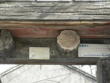 Menzan stayed and taught at many Rinzai Zen temples.